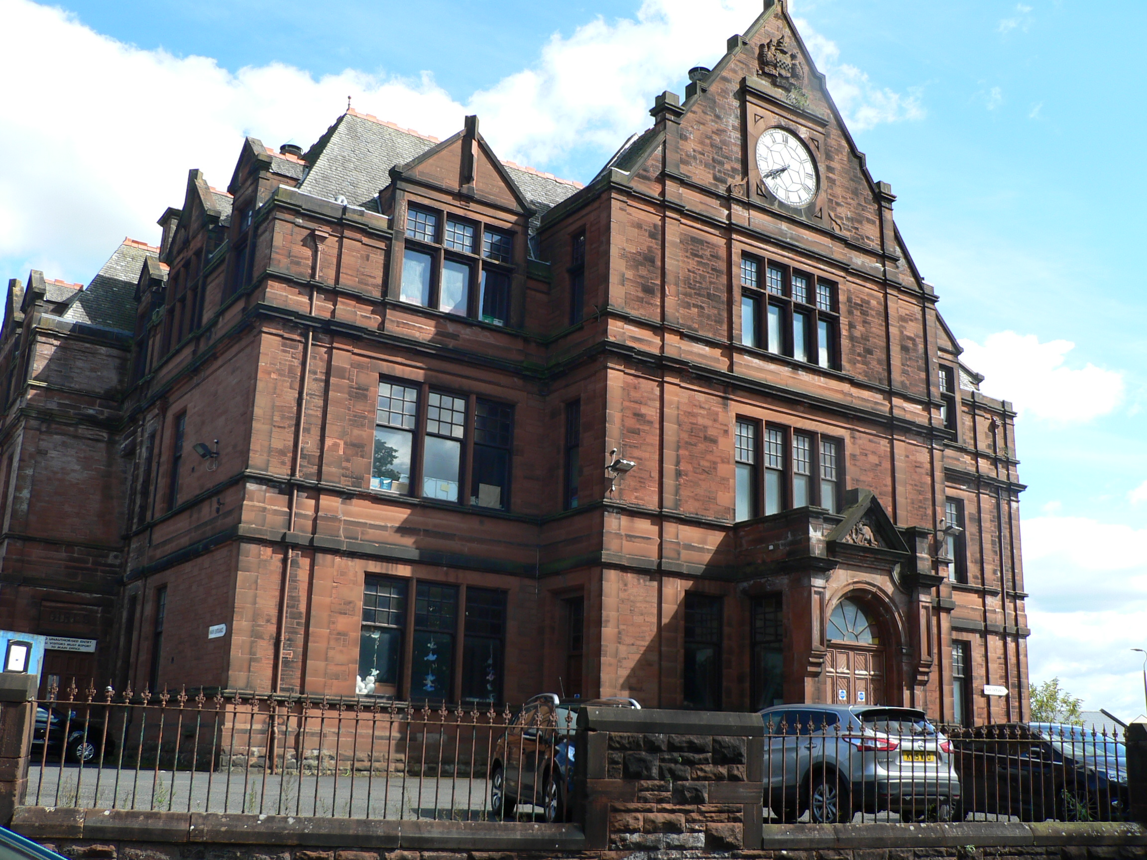 The original old building of the Kilmarnock Academy complex, dating back to the late 1800s.